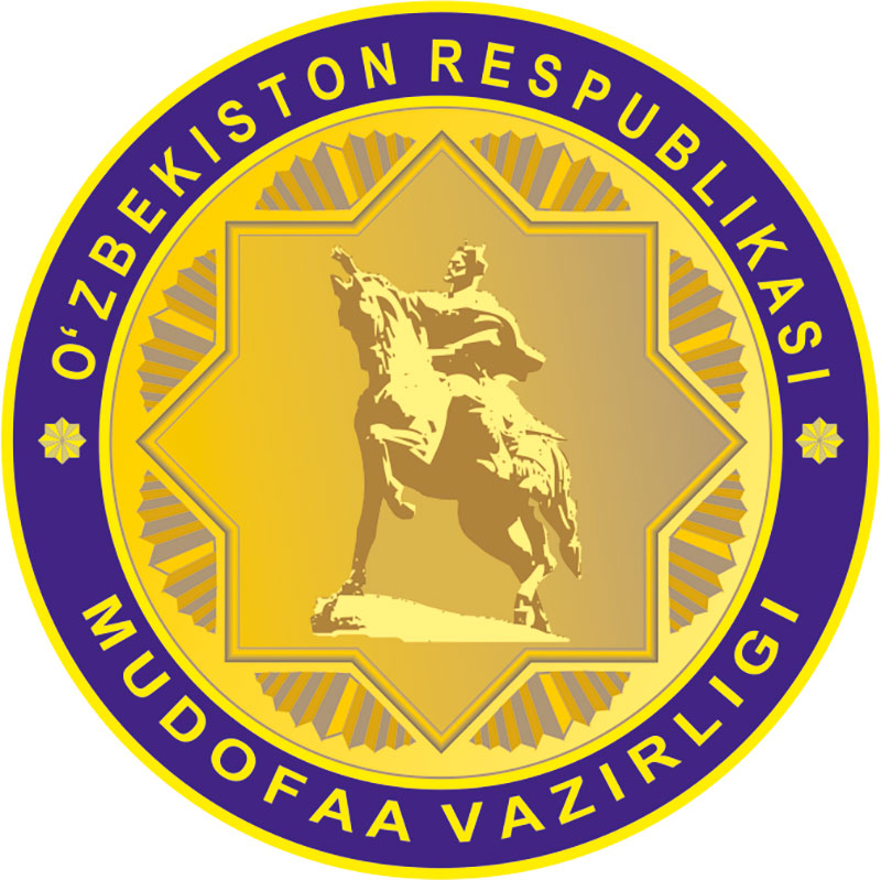 Emblem of the Ministry of defence of the Republic of Uzbekistan Oʻzbekcha/ўзбекча: O‘zbekiston Respublikasi Mudofaa vazirligi emblemasi